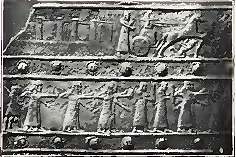 Section of bronze sheathing from gates of Shalmaneser II. Photo, Mansell & Co.Illustration from 1911 Encyclopædia Britannica, article Babylonia and Assyria.